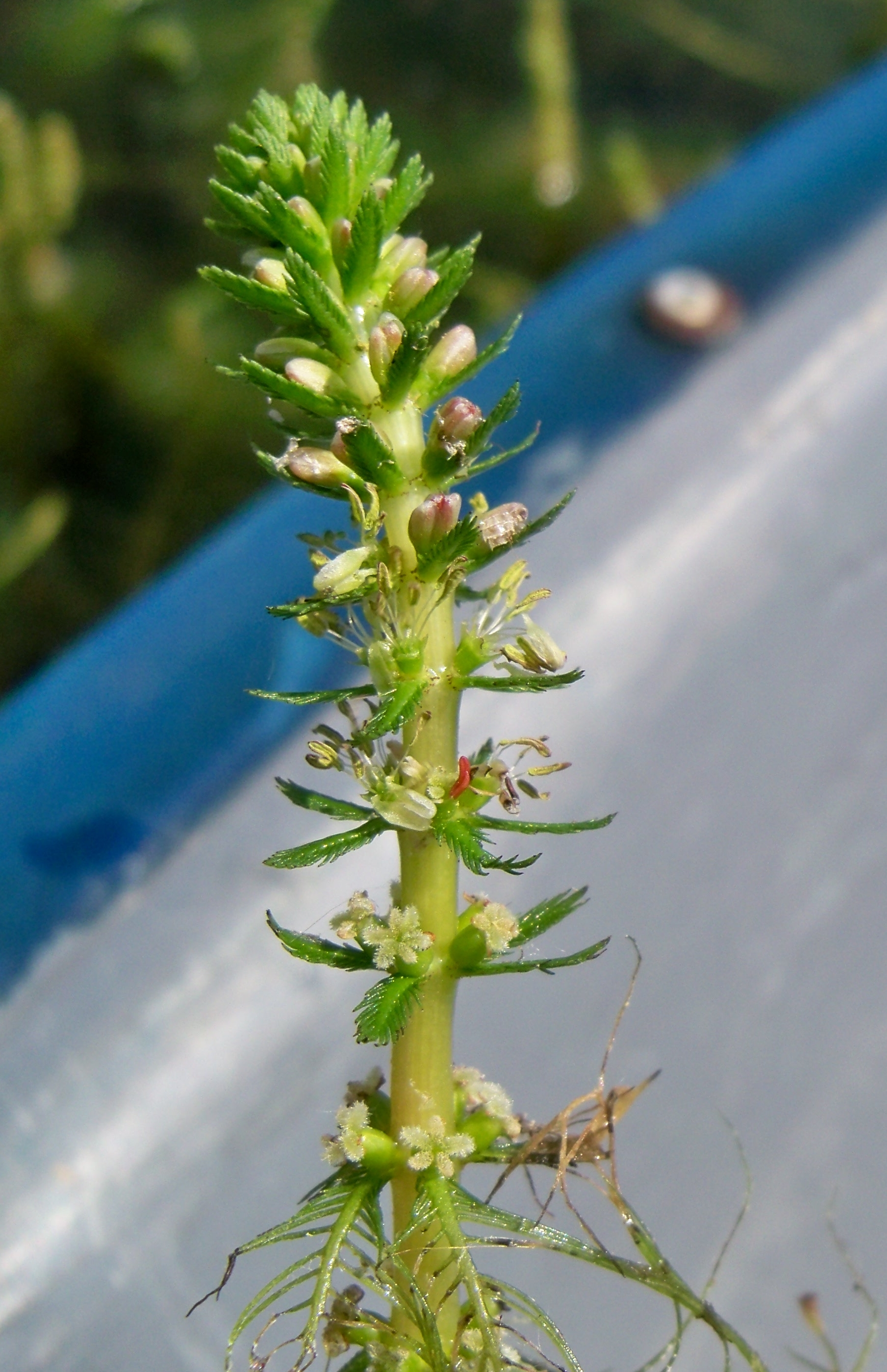 Whorled water milfoil (Myriophyllum verticillatum) – inflorescence